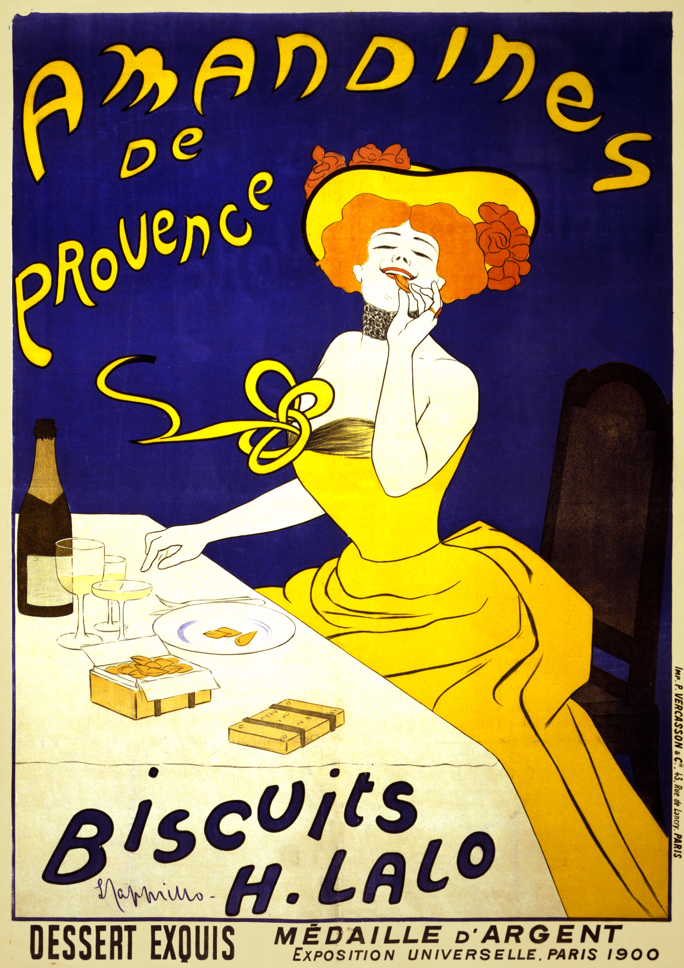 Amandines de Provence. Biscuits H. Lalo. Dessert exquis, medaille d'argent, Exposition Universelle, Paris 1900. Poster shows a woman eating almond cookies.